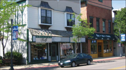 A small town in northern Illinois